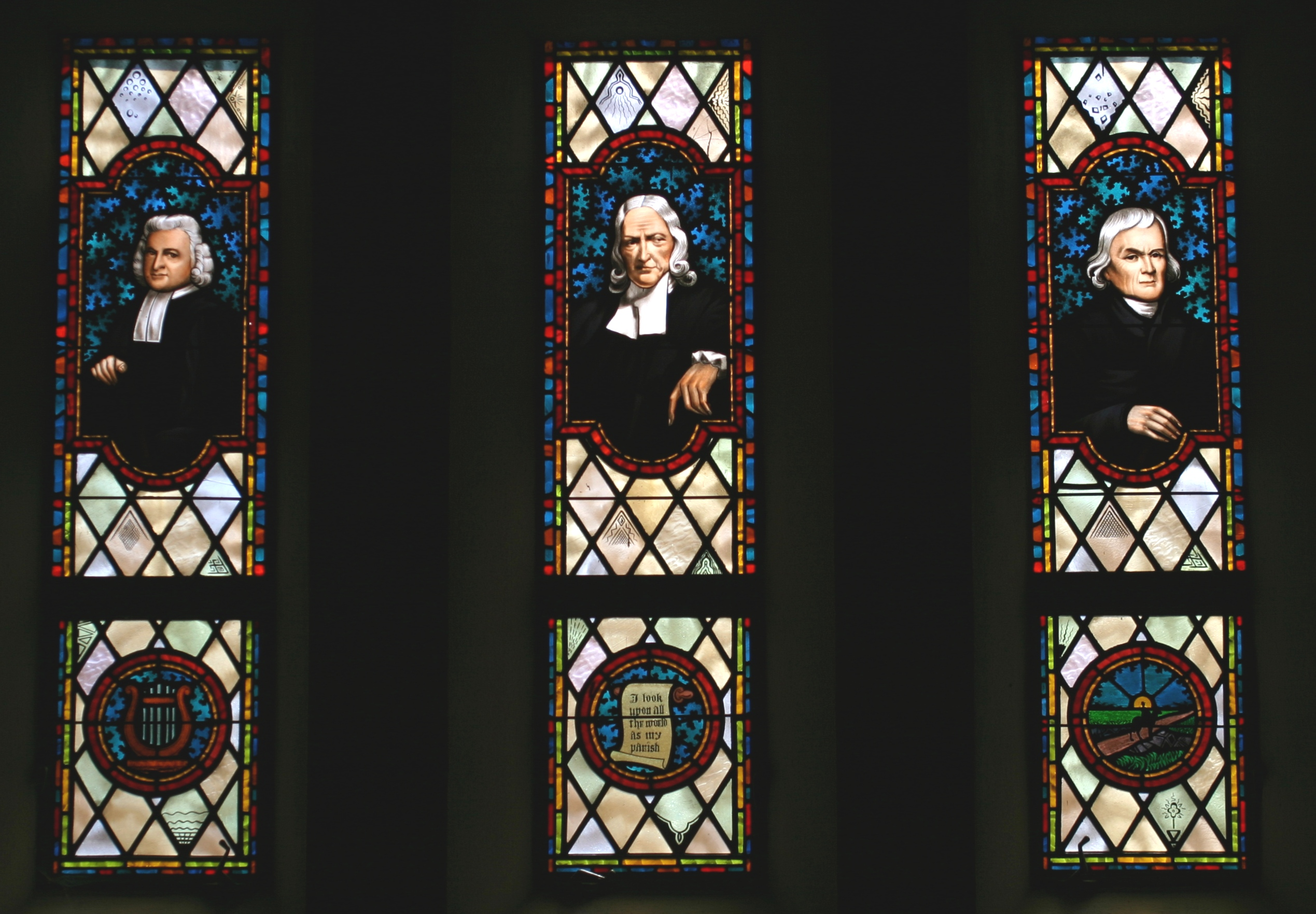 Three early Methodist leaders, Charles Wesley, John Wesley, and Francis Asbury, portrayed in stained glass at the Memorial Chapel, Lake Junaluska, North Carolina